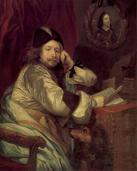 Thomas Killigrew, painted in 1650 by William Sheppard.